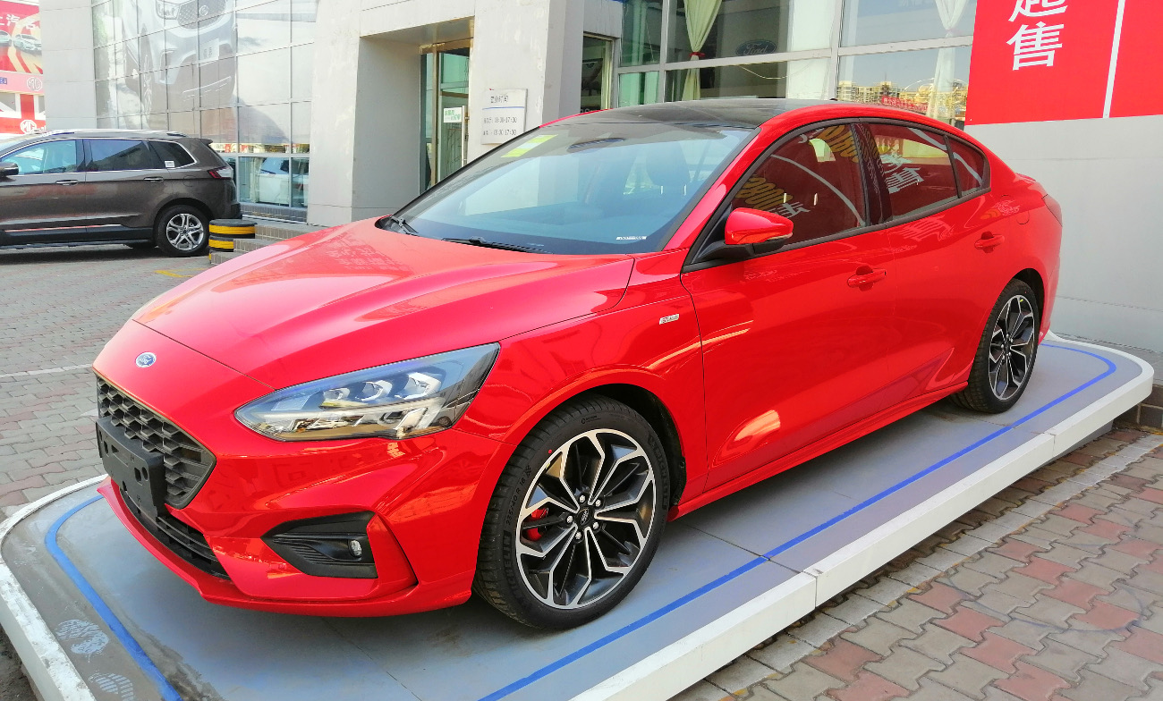 Ford Focus IV sedan ST Line photographed in Hohhot, Inner Mongolia autonomous region, China.